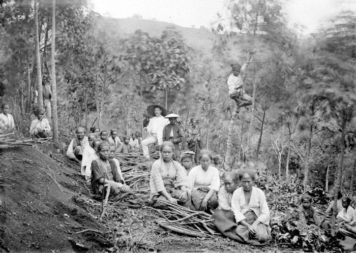 Women working on the fields of the chinchona plantation Ramawatie in the Priangan-region, West-Java